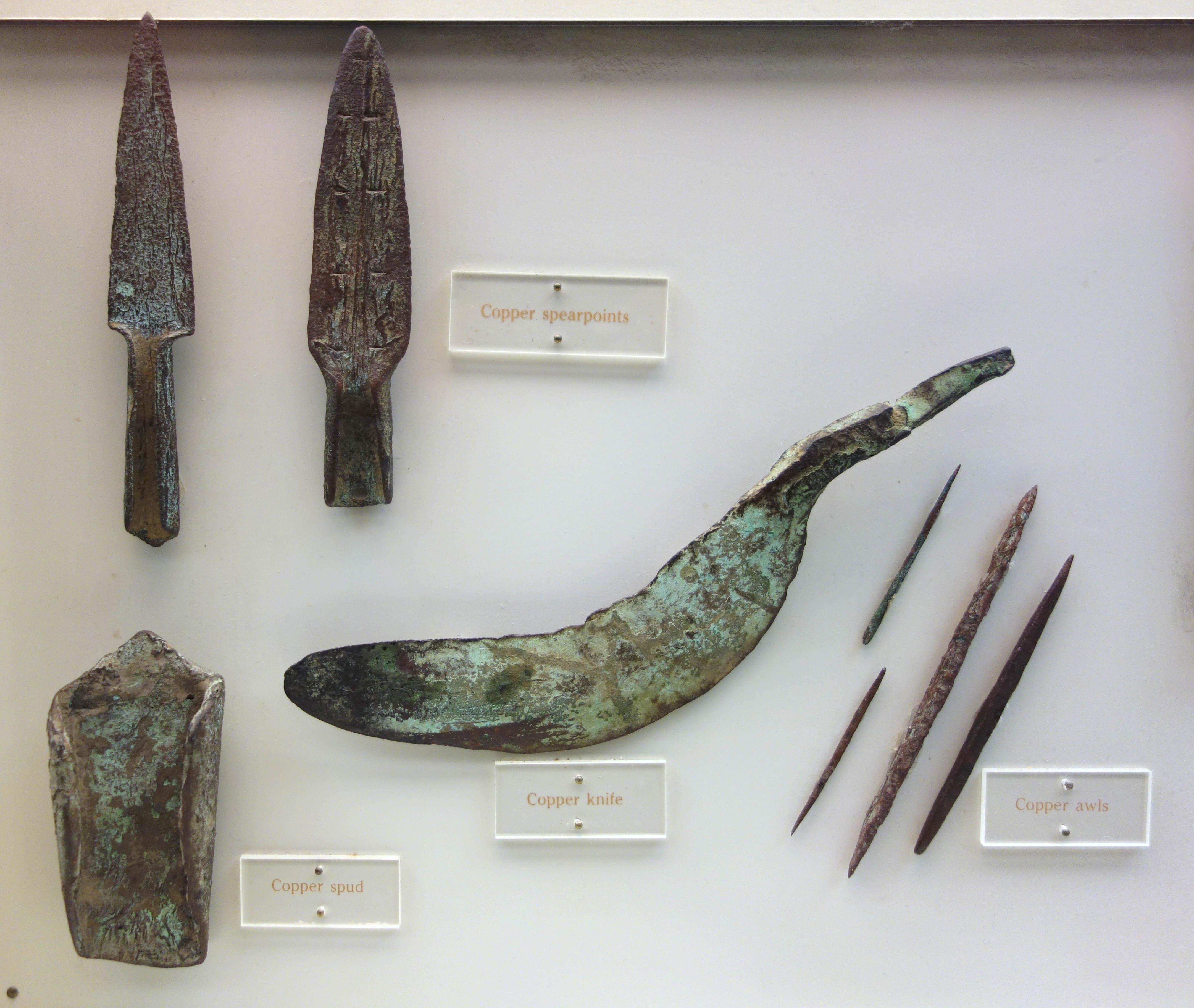 Archaic Indian copper artifacts, 3000 BC-1000 BC, exhibited in the Wisconsin Historical Museum, Madison, Wisconsin, USA. These items are old enough so that it is in the public domain.